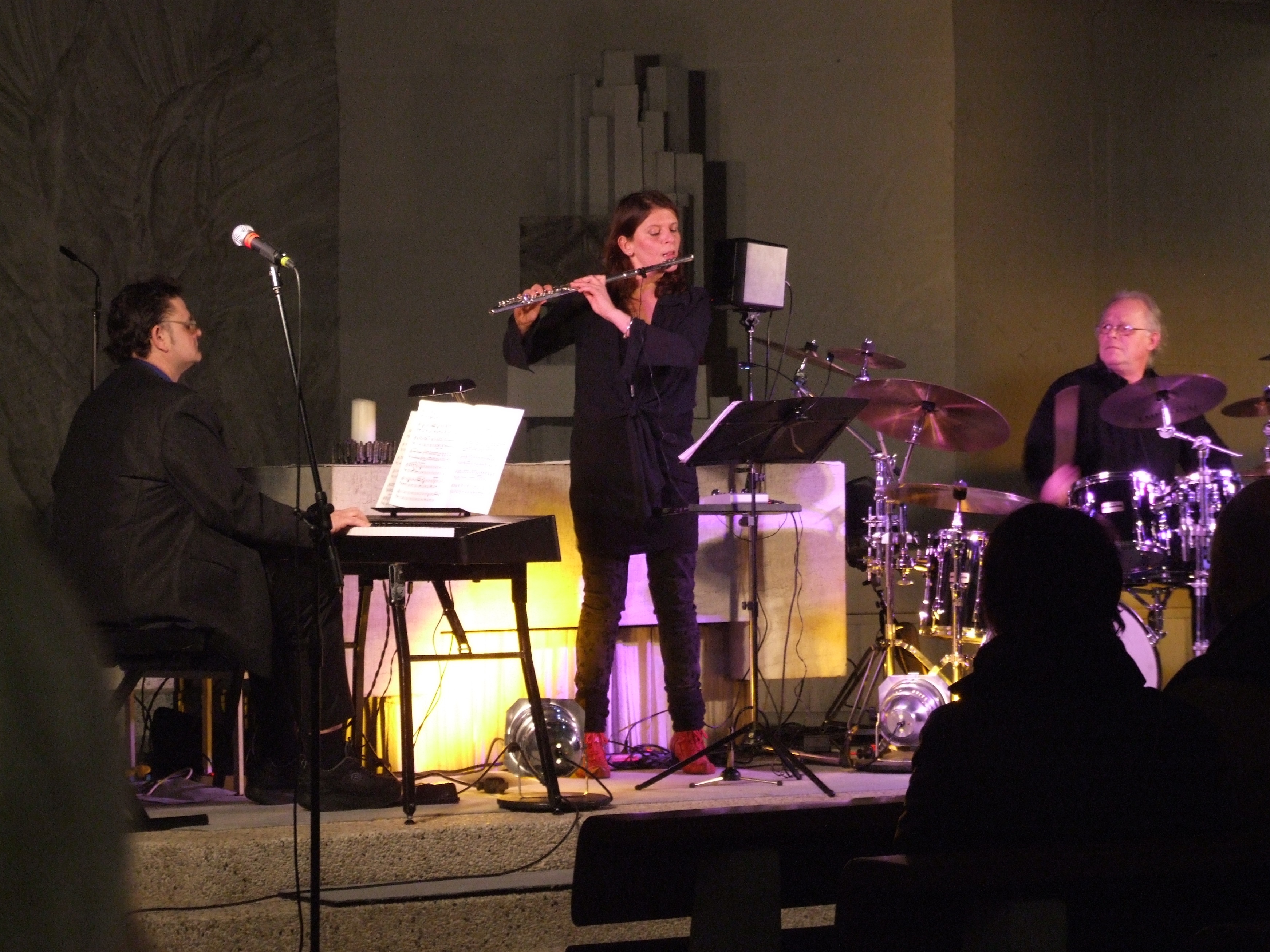 Thirty Fingers on 16 February 2013 in St. Konrad, Speyer. right of peoples Joe Völker (keyboards, arranger), Petra Erdtmann (traverse flute) and Peter Götzmann (drums)